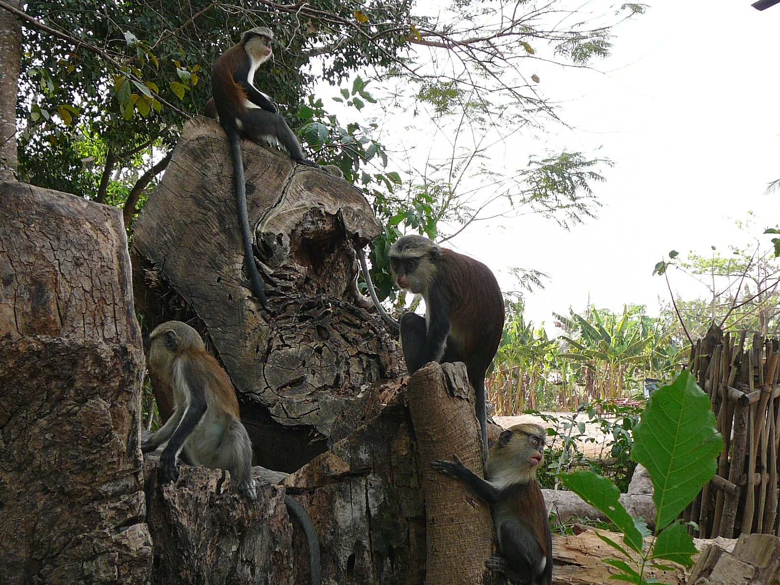 Cercopithecus mona mona in Tafi Atome (Ghana)